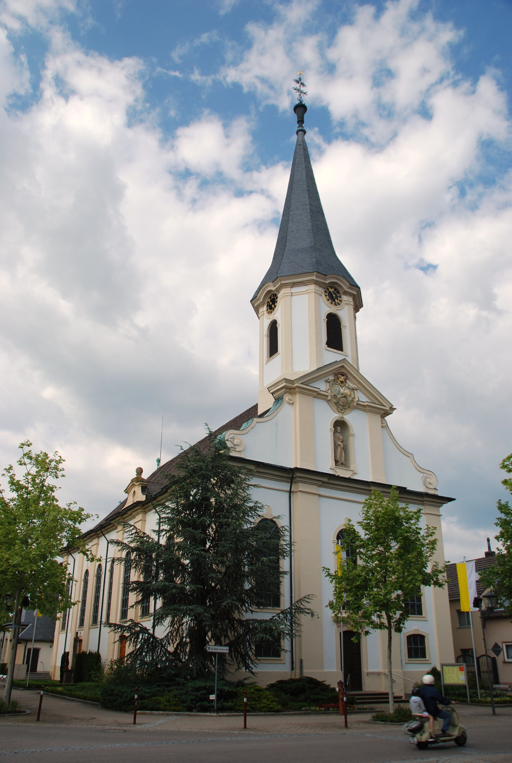 Church of Huttenheim front view